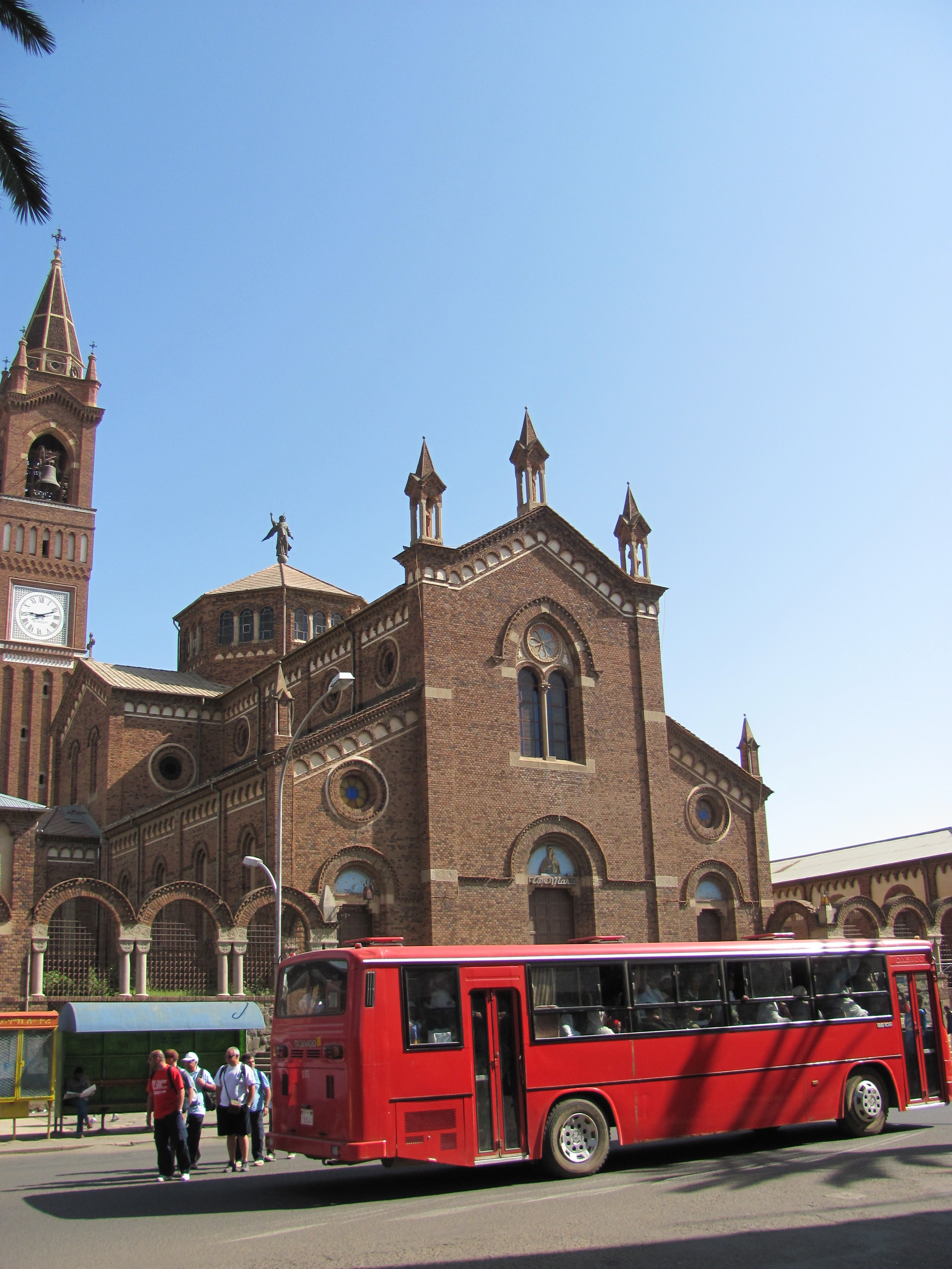 Metropolitan Bus Asmara